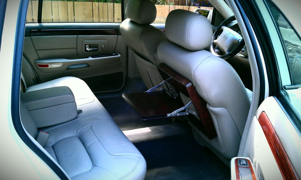 99' Fleetwood Limited Rear